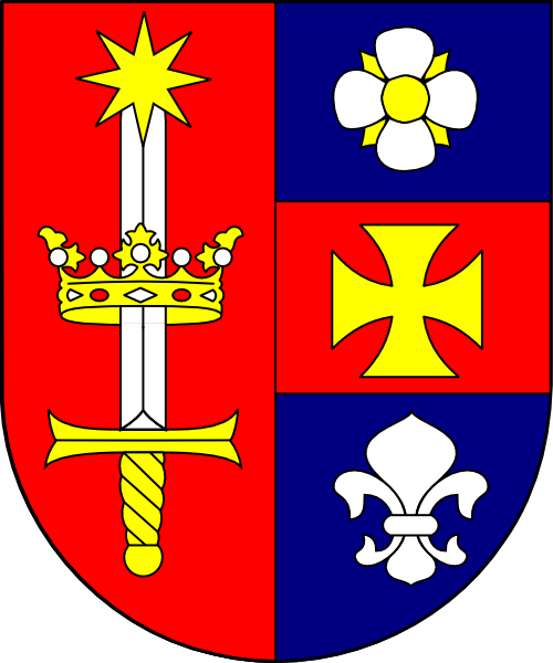 Coat of arms (shield only) of János Telegdy, bishop of Vrhbosna, Bosnia and Herzegovina (1608 - 1613), bishop of Oradea Mare, Romania (1613 - 1619), bishop of Nitra, Slovakia (1619 - 1647), archbishop of Kalocsa, Hungary (1624 - 1647); tinctures based on mural painting in st. Emmeram's Cathedral in Nitra.